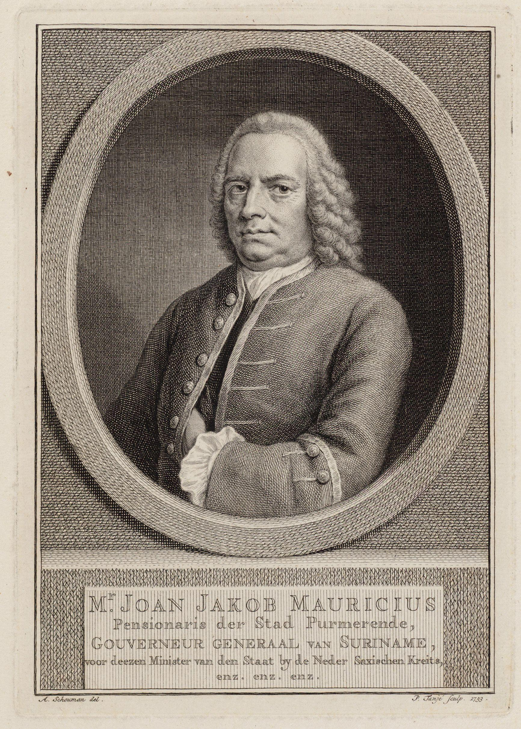 Text from source site: Jan Jacob Mauricius (1692 / 21-03-1768). Governor-General of Surinam, resident of Statengeneraal in Hamburg. Size: 188 x 130 mm. Source: Collection drawings and prints. Creators: Pieter Tanjé (engraver) and A. Schouman (drawing). Filenumber: 010097008893.